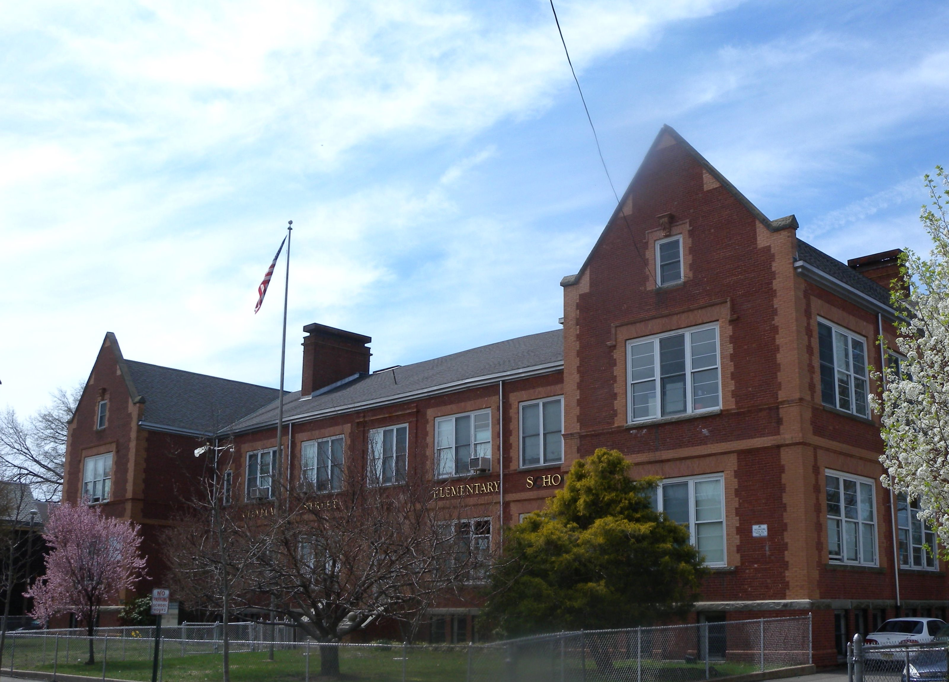 Looking west at Cleveland Street School on a sunny midday.